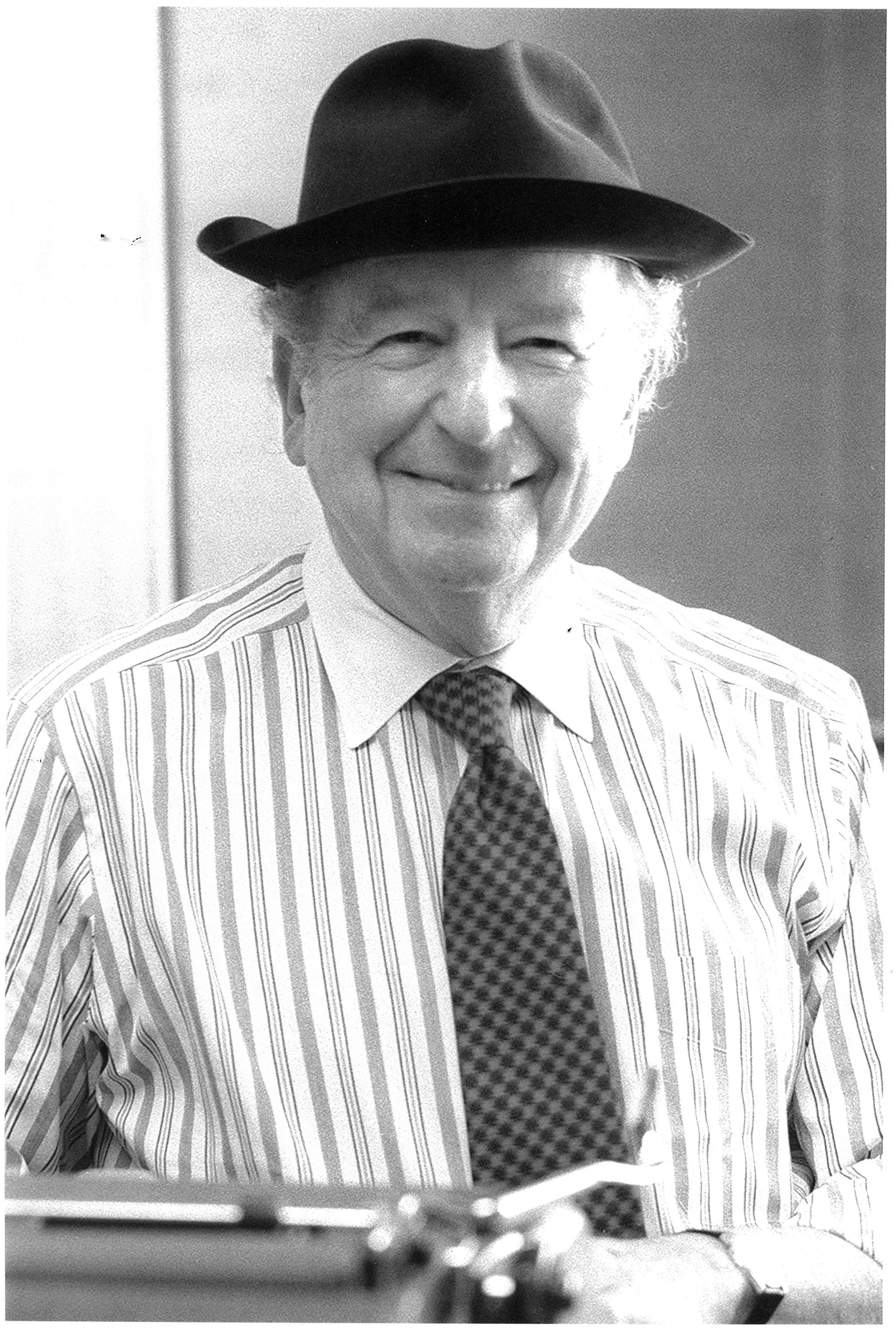 San Francisco Chronicle newspaper columnist Herb Caen in 1994. Photograph by Nancy Wong